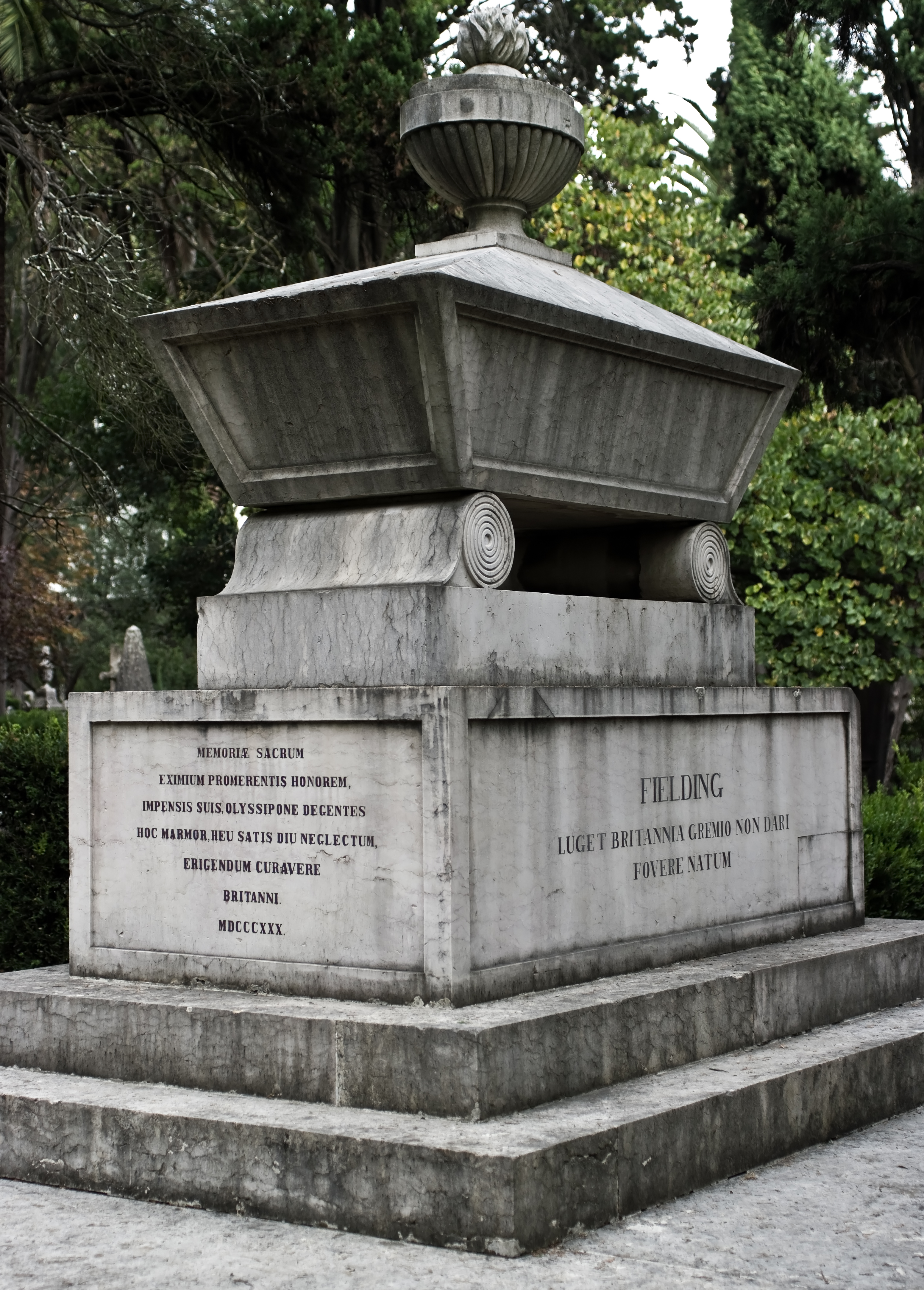 Henry Fielding's grave in the English Cemetery (Cemitério dos Ingleses) in the Estrela district of Lisbon, Portugal